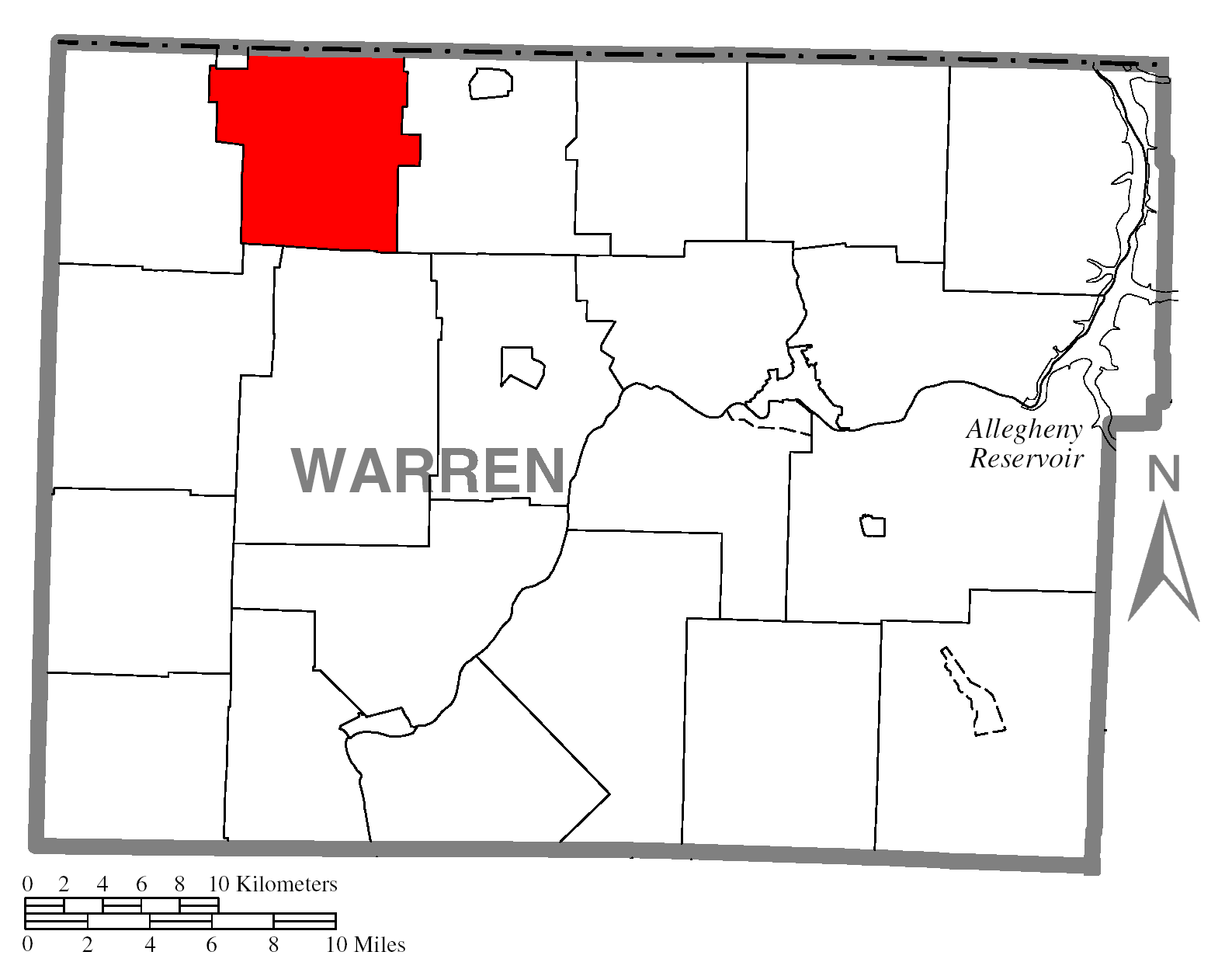 Map of Warren County higlighting Freehold Townhip.